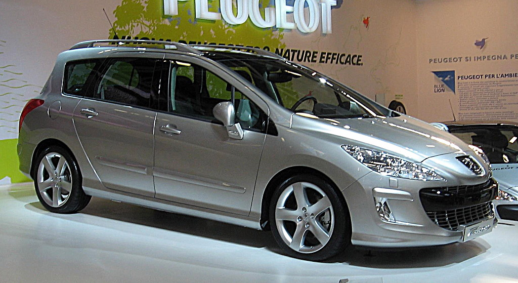 Subject:Peugeot 308 SW Author:Luc106 Date:December 13th, 2007 Event:Motor Show Bologna 2007 Place/Country: Bologna, Italy I release all rights in the public domain.